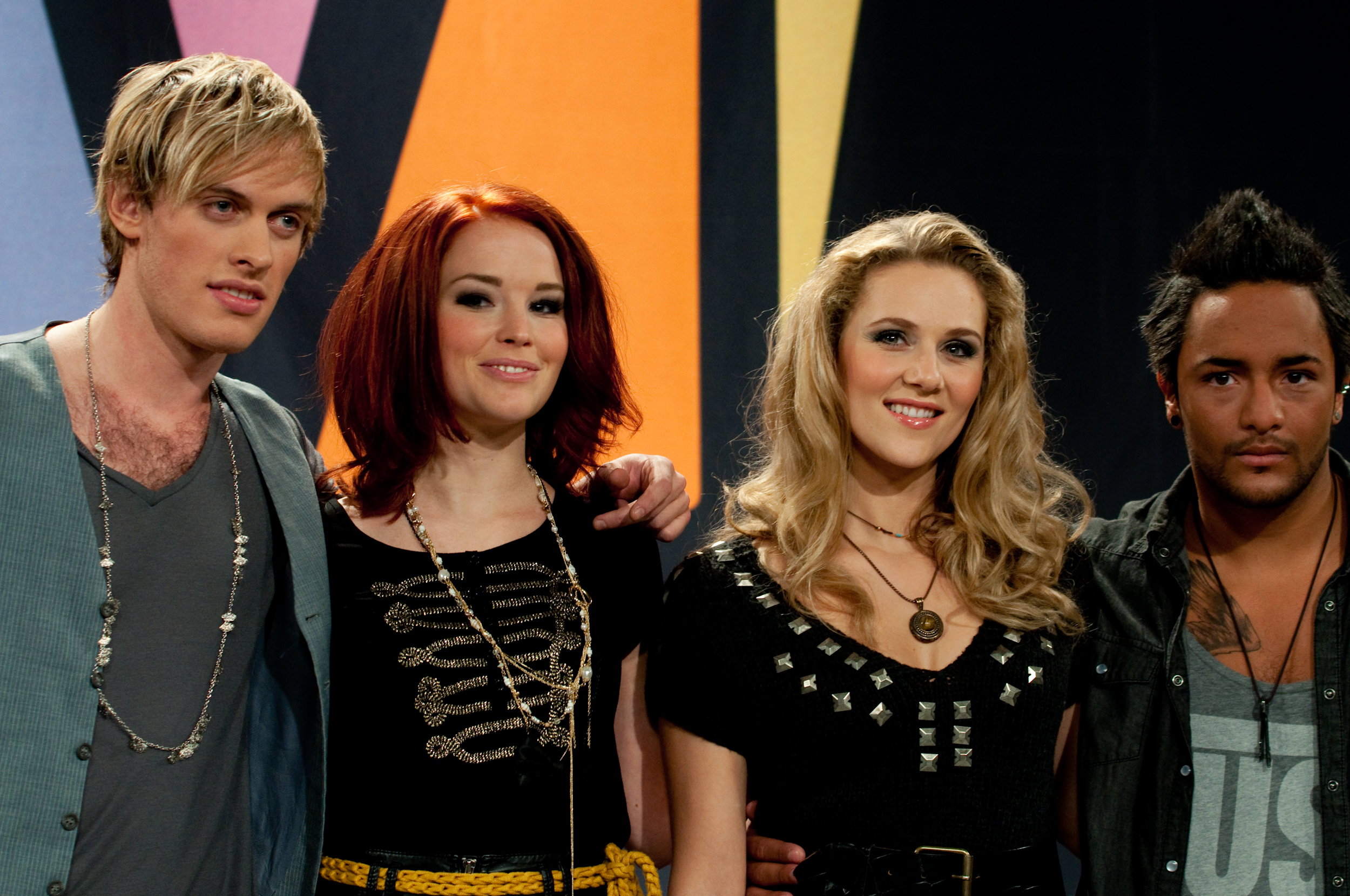 Lovestoned 2009 at a press conference for Melodifestivalen 2010